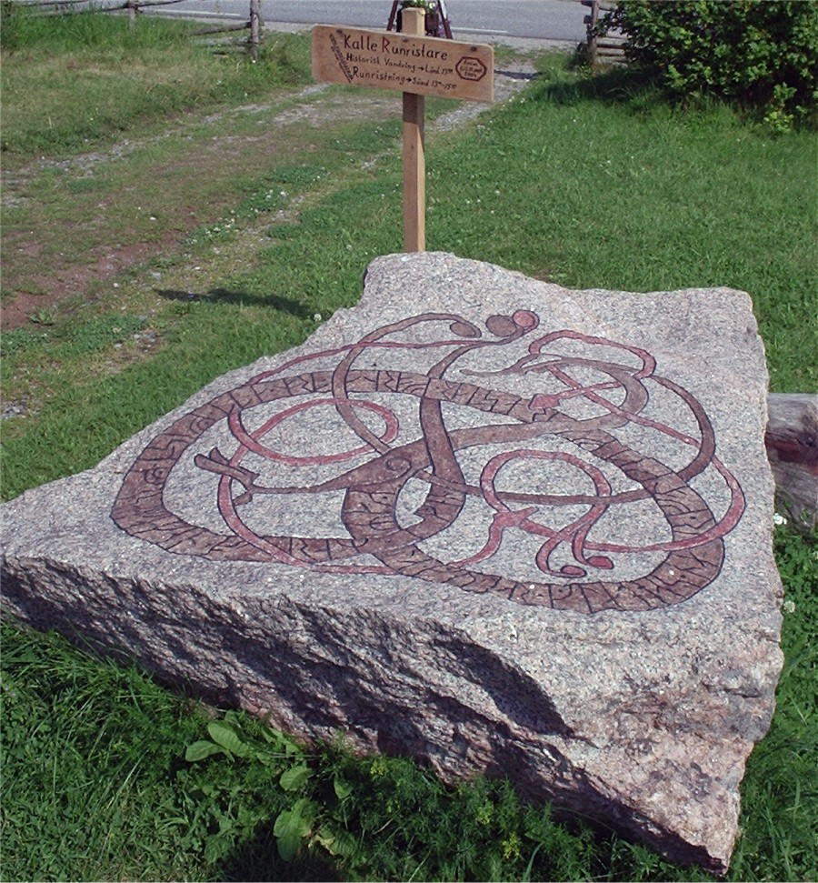 Modern runestone by the runcarver Kalle Dahlberg ("Kalle Runristare") on Adelsö in Stockholm